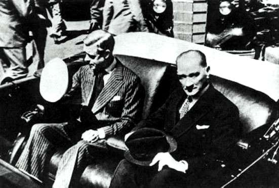 Mustafa Kemal Atatürk and King of the United Kingdom, Edward VIII (4 September 1936), Istanbul.